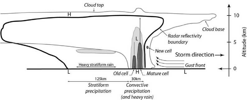 Ehitus